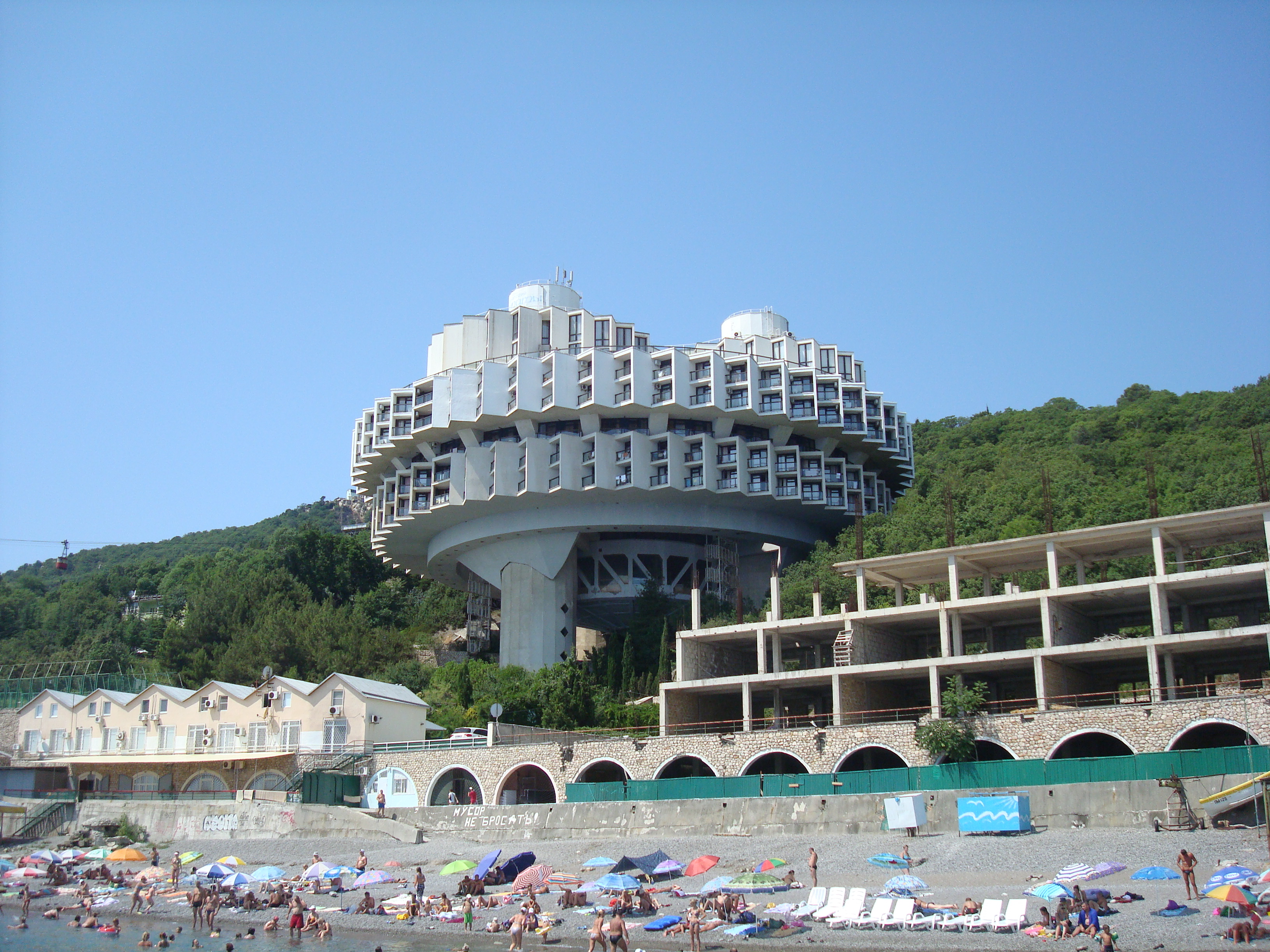 Sanatorium "Kurpaty"